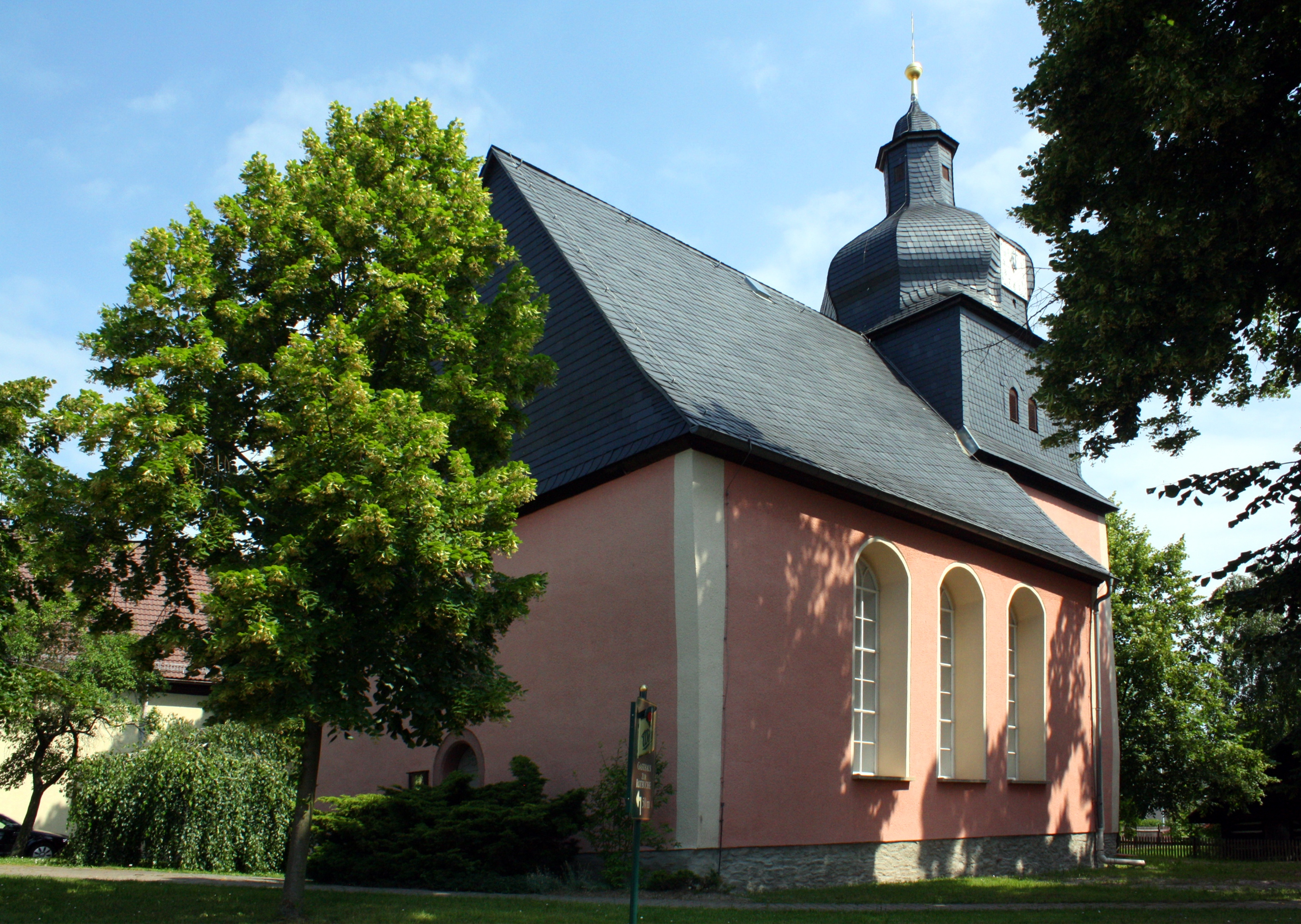 Church in Hohenölsen near Greiz/Thuringia